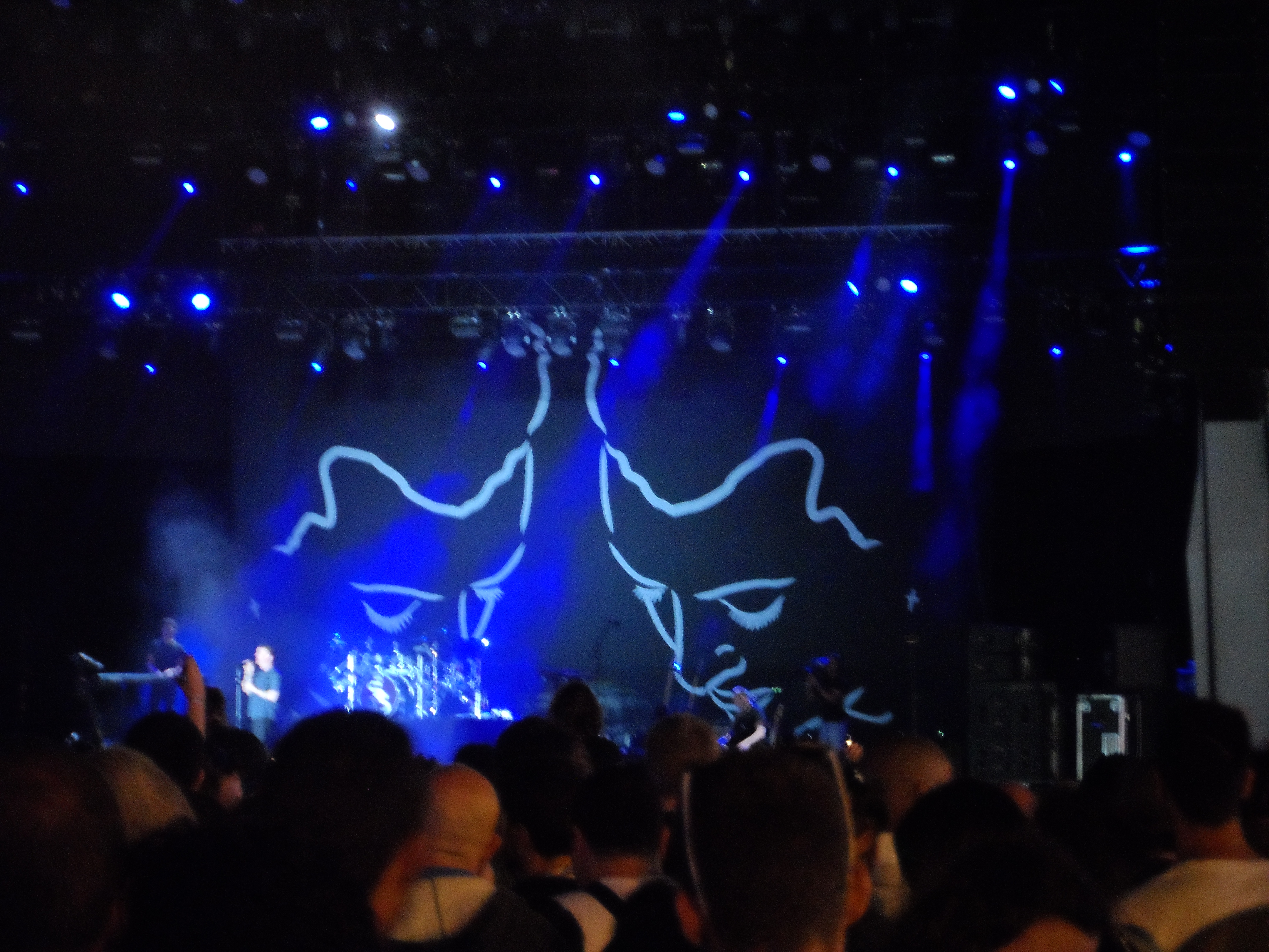 Nos Alive 2015 Sam Smith